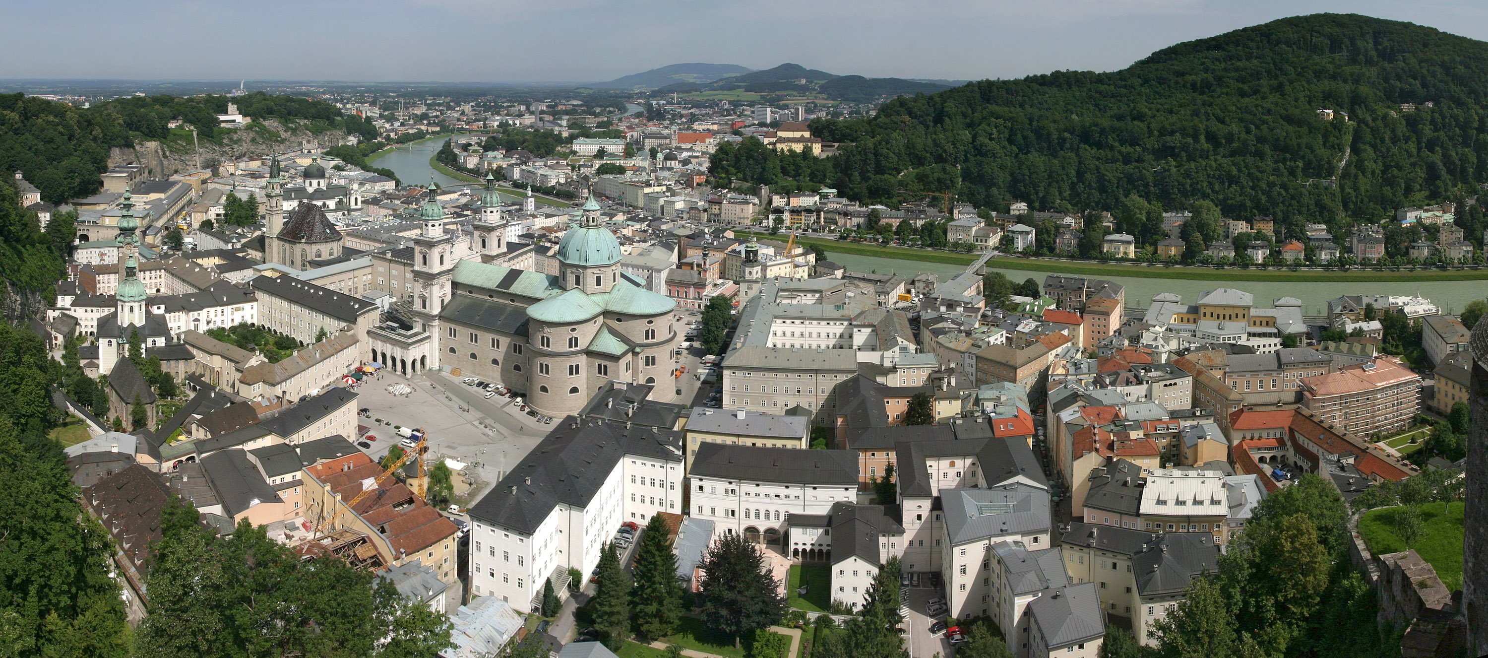 A panorama of 4 images stitched together, showing the city of Salzburg from the top of the fortress.